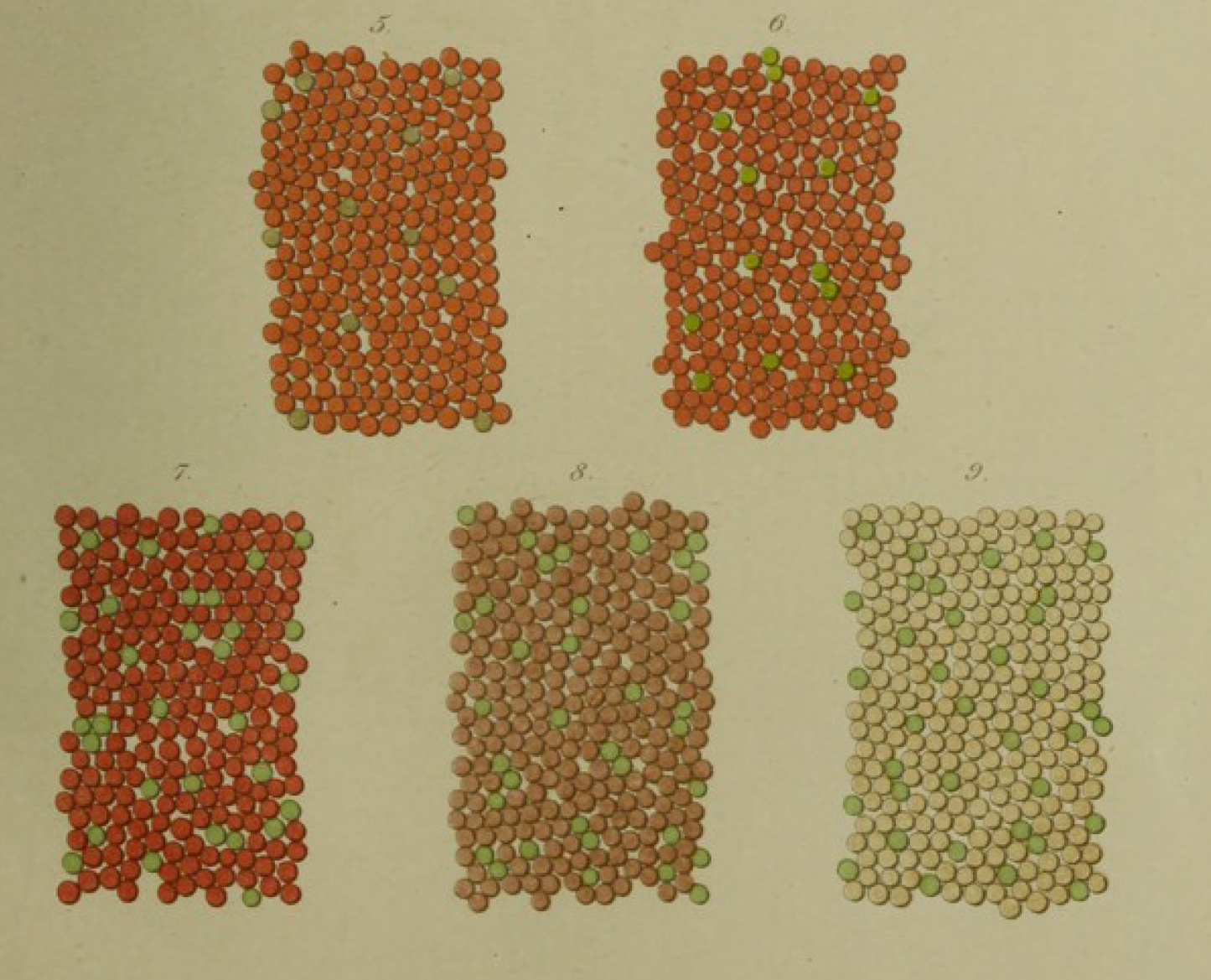 Retina bleaching by light. Franz Boll 1877